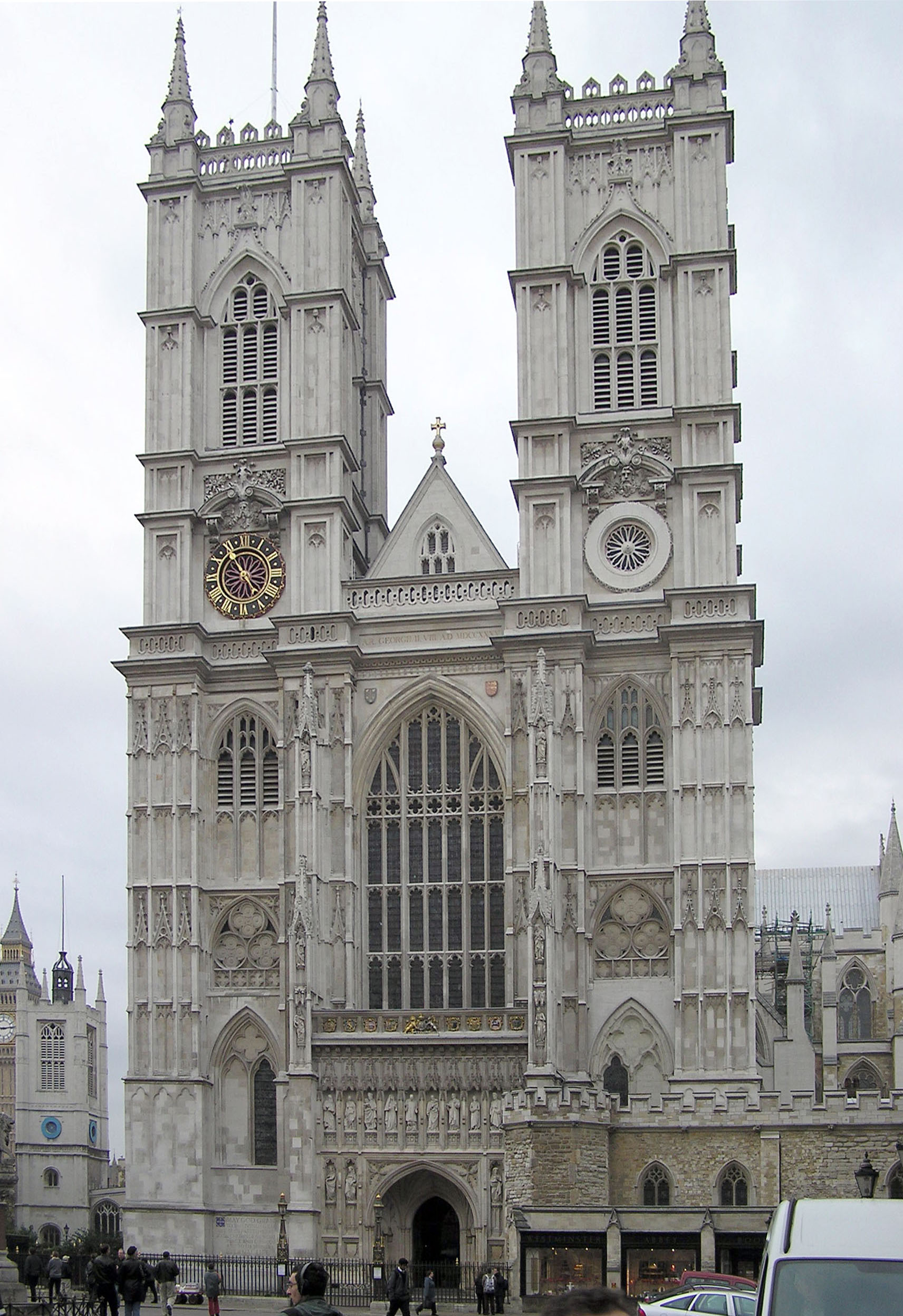 The west front of Westminster Abbey, Westminster, London, England. Photographed by Adrian Pingstone in November 2004 and placed in the public domain.